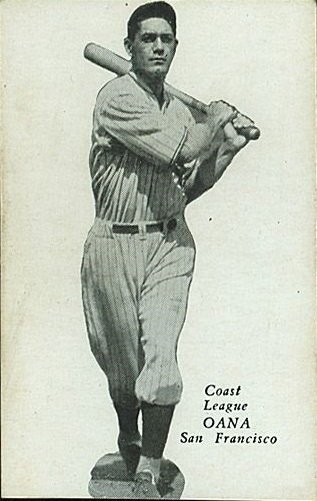 1932 Zeenut PCL baseball card of San Francisco Seals player Prince Oana The photo has no copyright markings on it as can be seen in the links above.